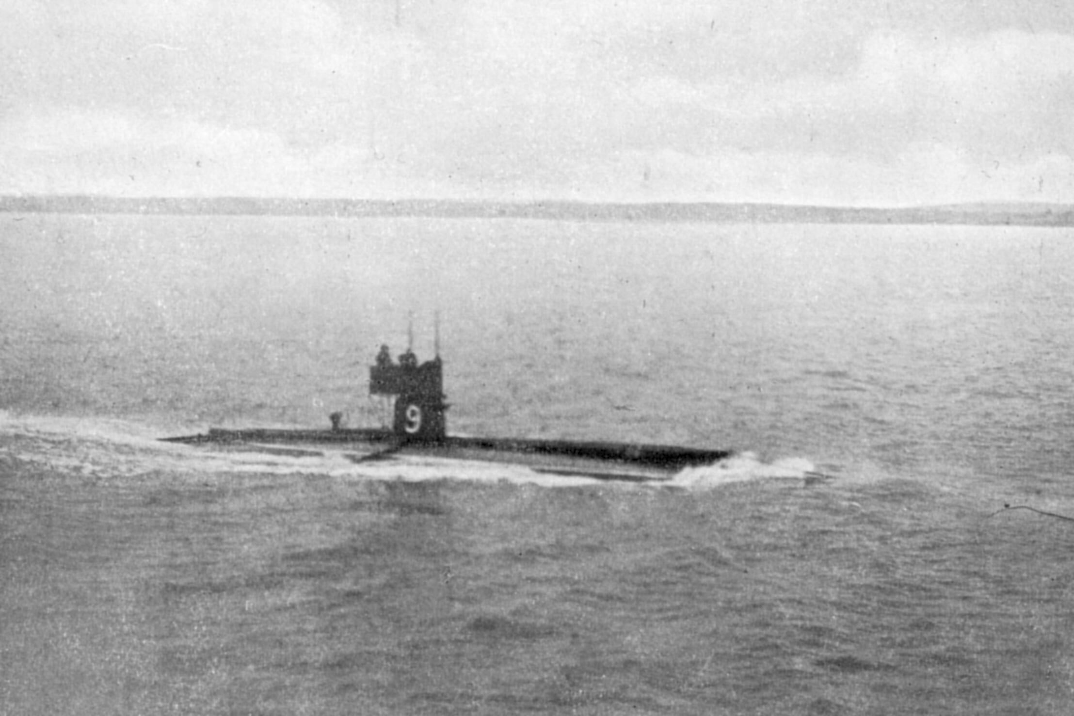 Photo of submarine A9, most probably during naval review